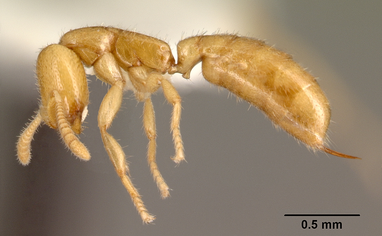 Profile view of ant Adetomyrma venatrix specimen casent0101400.